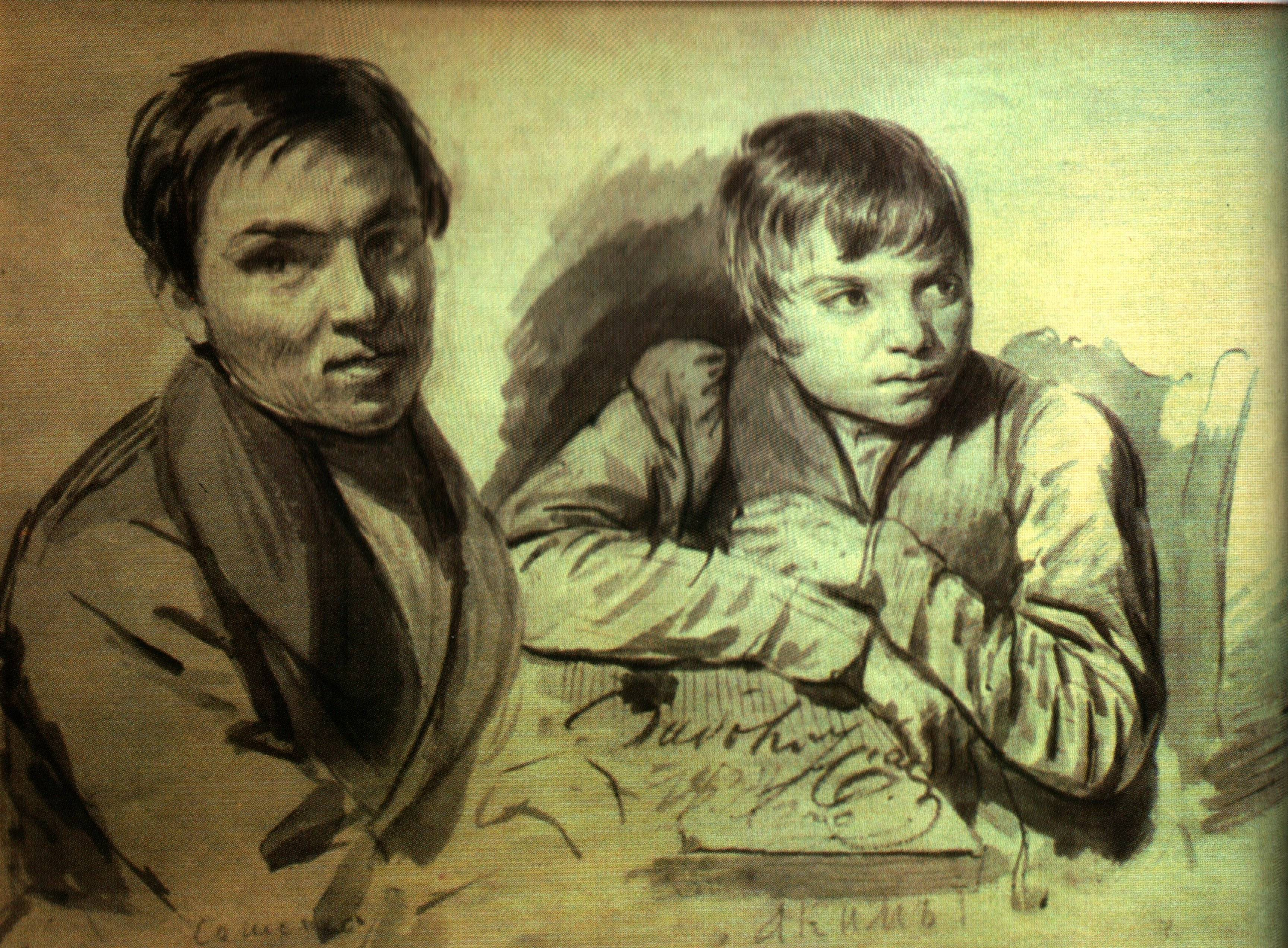 Portrait of Ivan Soshenko by Yakim Zablocky